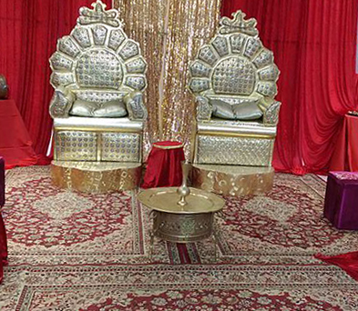 Thrones used byy bride and groom in Morrocan Jewish henna ceremony